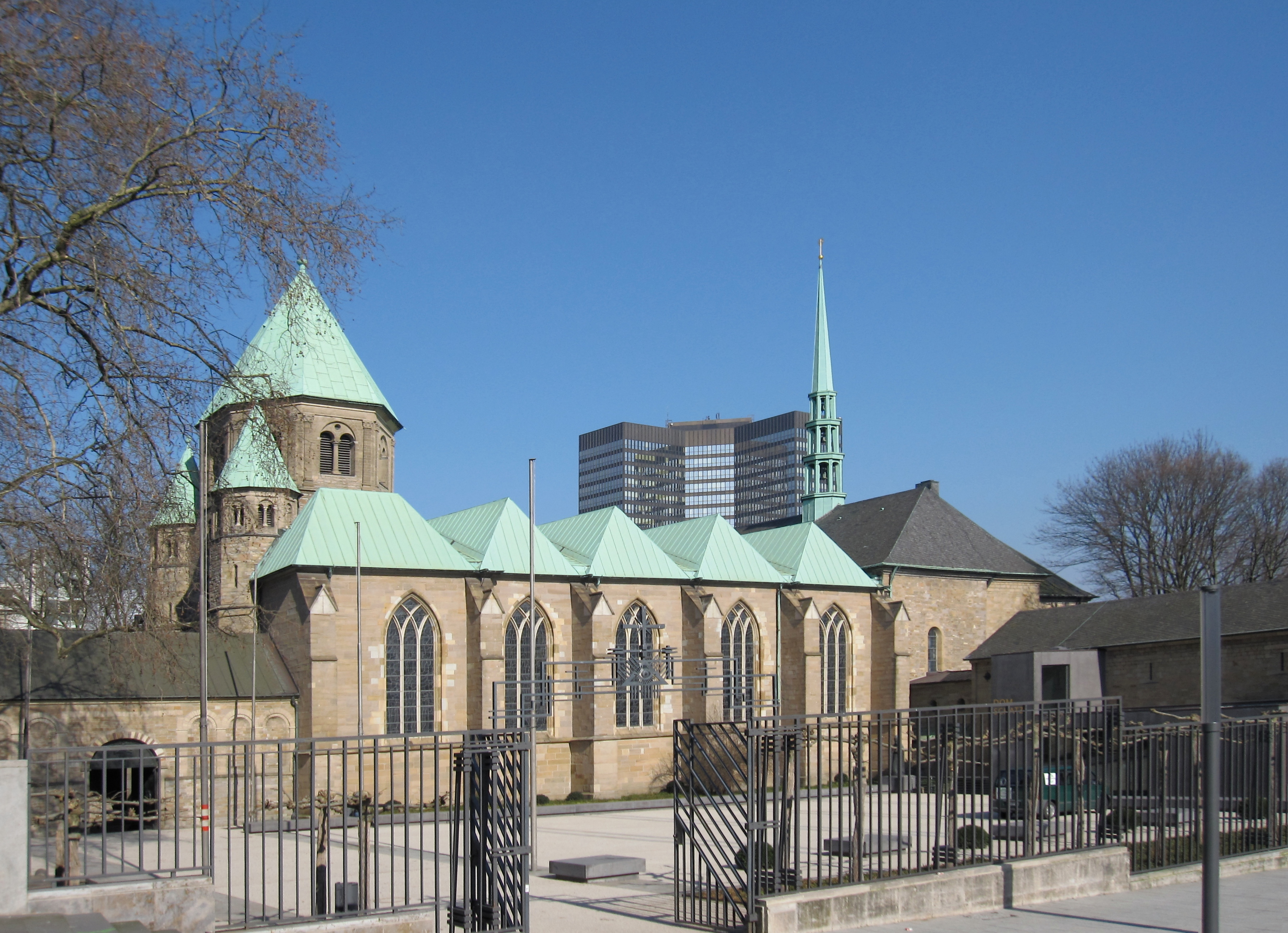 Essen Minster.